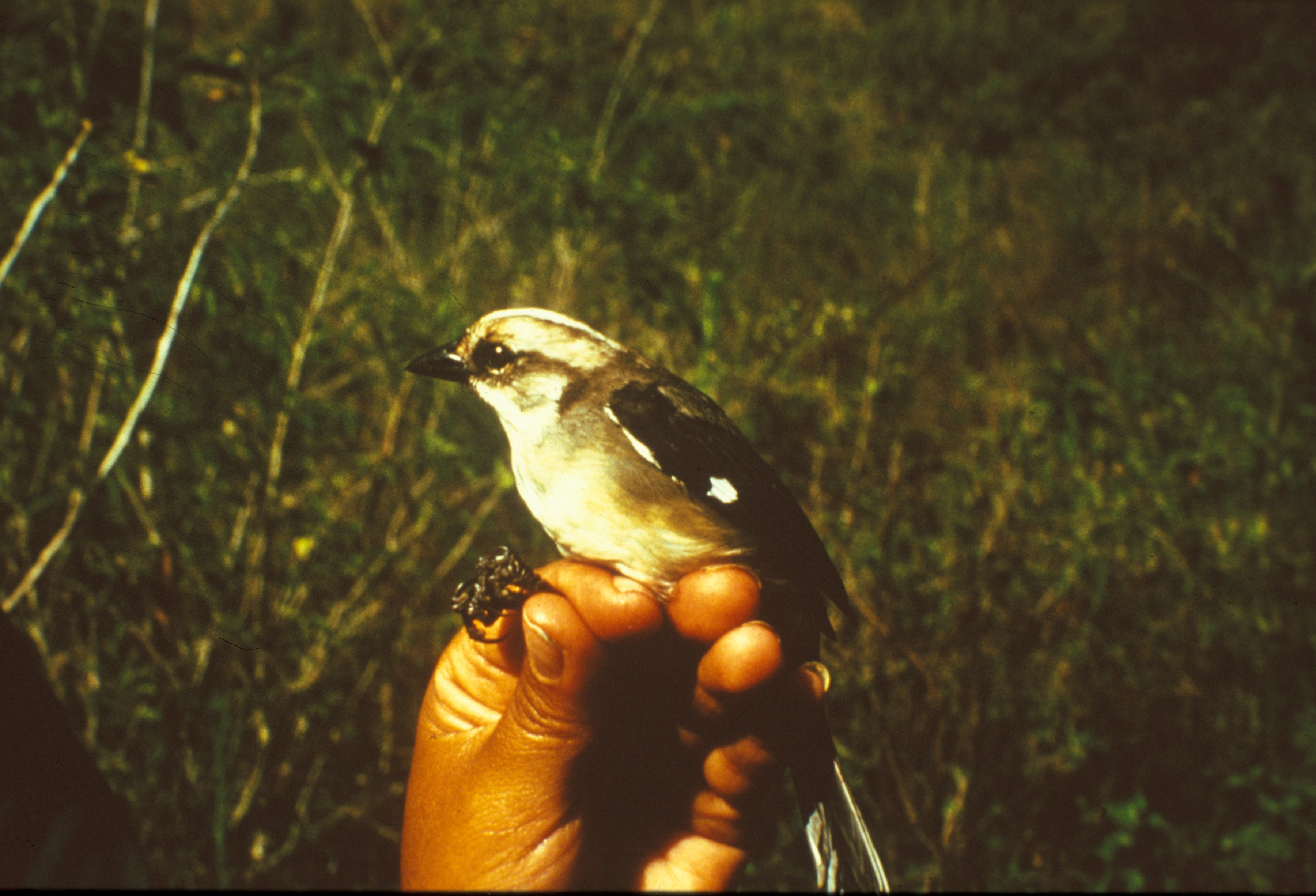 Pale-headed Brush-finch (Atlapetes pallidiceps) from the NBII Image Gallery